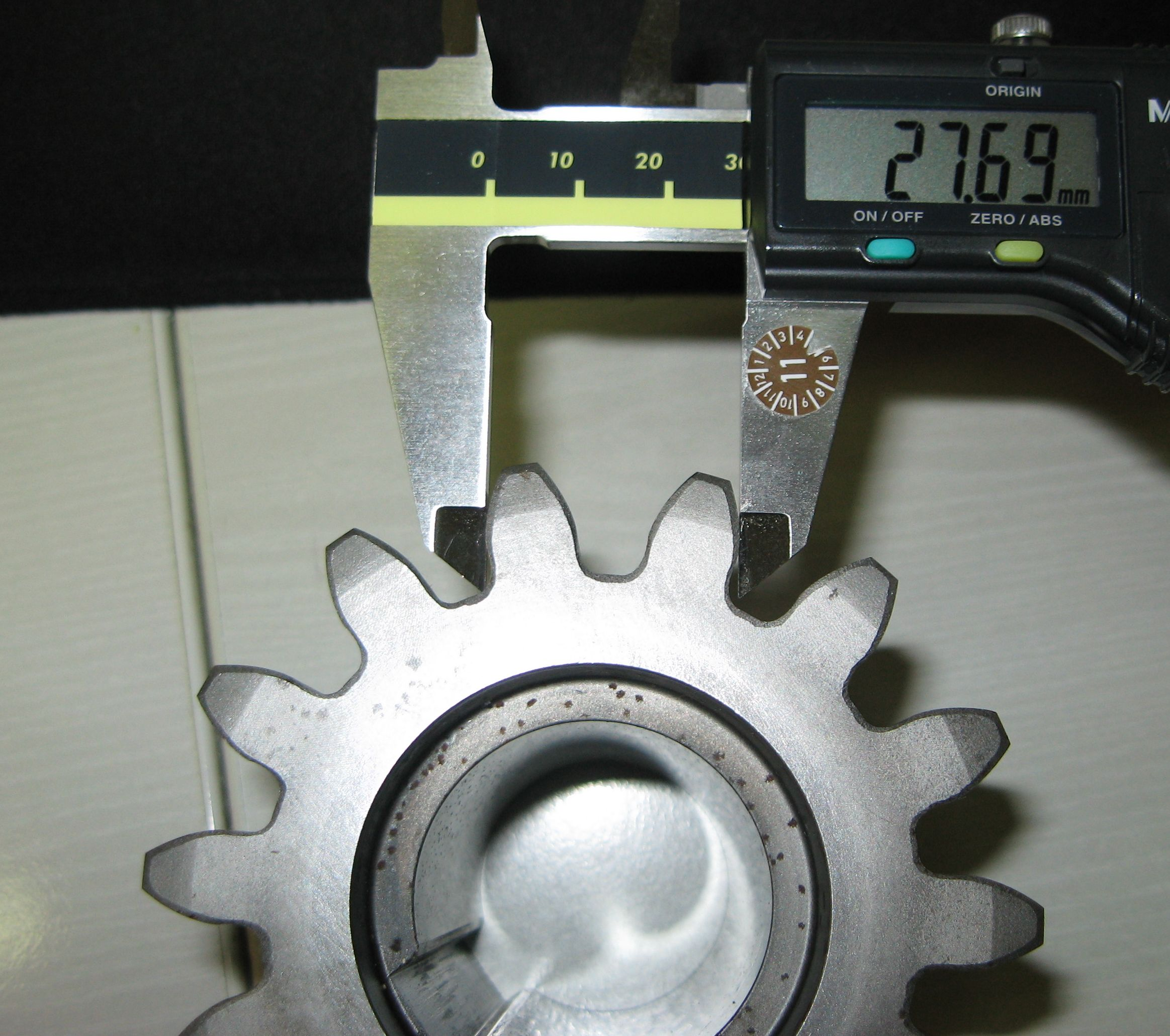 Measuring the Tooth Width of a Gear Wheel, tooth span, gear measurement